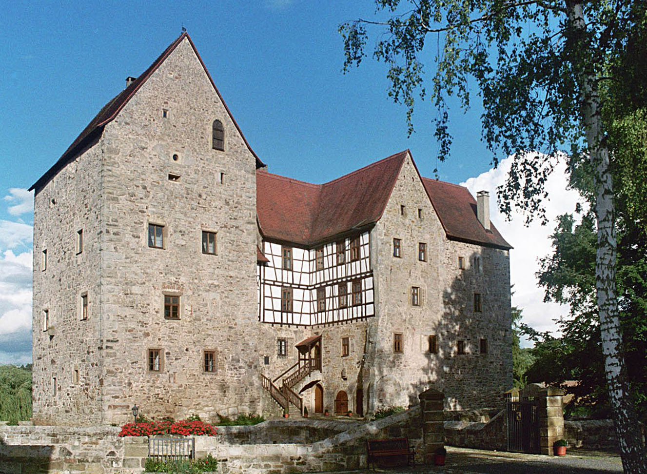 Brennhausen Castle, Franconia, Bavaria, Germany. View from the North West.